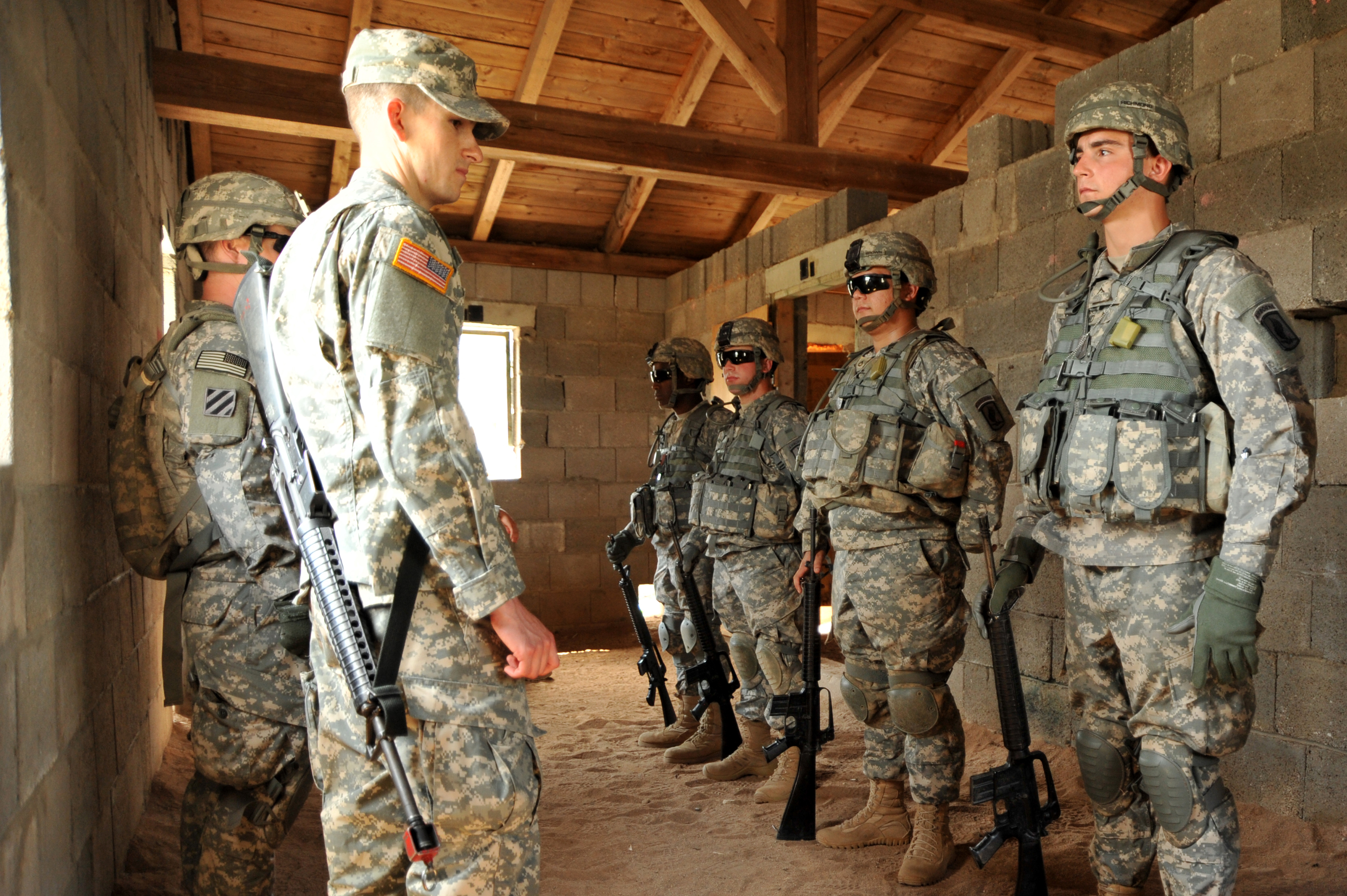 GRAFENWOEHR, Germany --- U.S. Army 1st Lt. John Tidwell (with patrol cap), 72nd Expeditionary Signal Battalion, inspects troops for uniform deficiencies during United States Army Europe's Best Junior Officer Competition in Grafenwoehr, Germany, July 26, 2012. The Best Junior Officer Competition, unique to the U.S. Army in Europe, is a training event meant to challenge and refine competitors' leadership and cognitive decision-making skills in a high-intensity environment. The competition runs from July 23-27, 2012. The competitors, company-grade officers ranking from 2nd Lt. to Capt., represent Army units throughout Europe and have already distinguished themselves amongst their peers and exemplify the profession of arms. The competition brings these up-and-coming young leaders together for five days of physically and mentally challenging training, all for the chance to be named U.S. Army Europe's "Best Junior Officer" for 2012. Challenges include pistol and rifle qualifications, multiple foot marches, and various situational training exercises to test their intellect and instincts as leaders. The knowledge, skill-sets and leadership traits honed at this competition will help prepare the young leaders involved to excel when the time comes to lead Soldiers in a deployed environment. For more information or to see photos and video from the competition go to the U.S. Army Europe Web site (U.S. Army photo by Visual Information Specialist Markus Rauchenberger/Released)